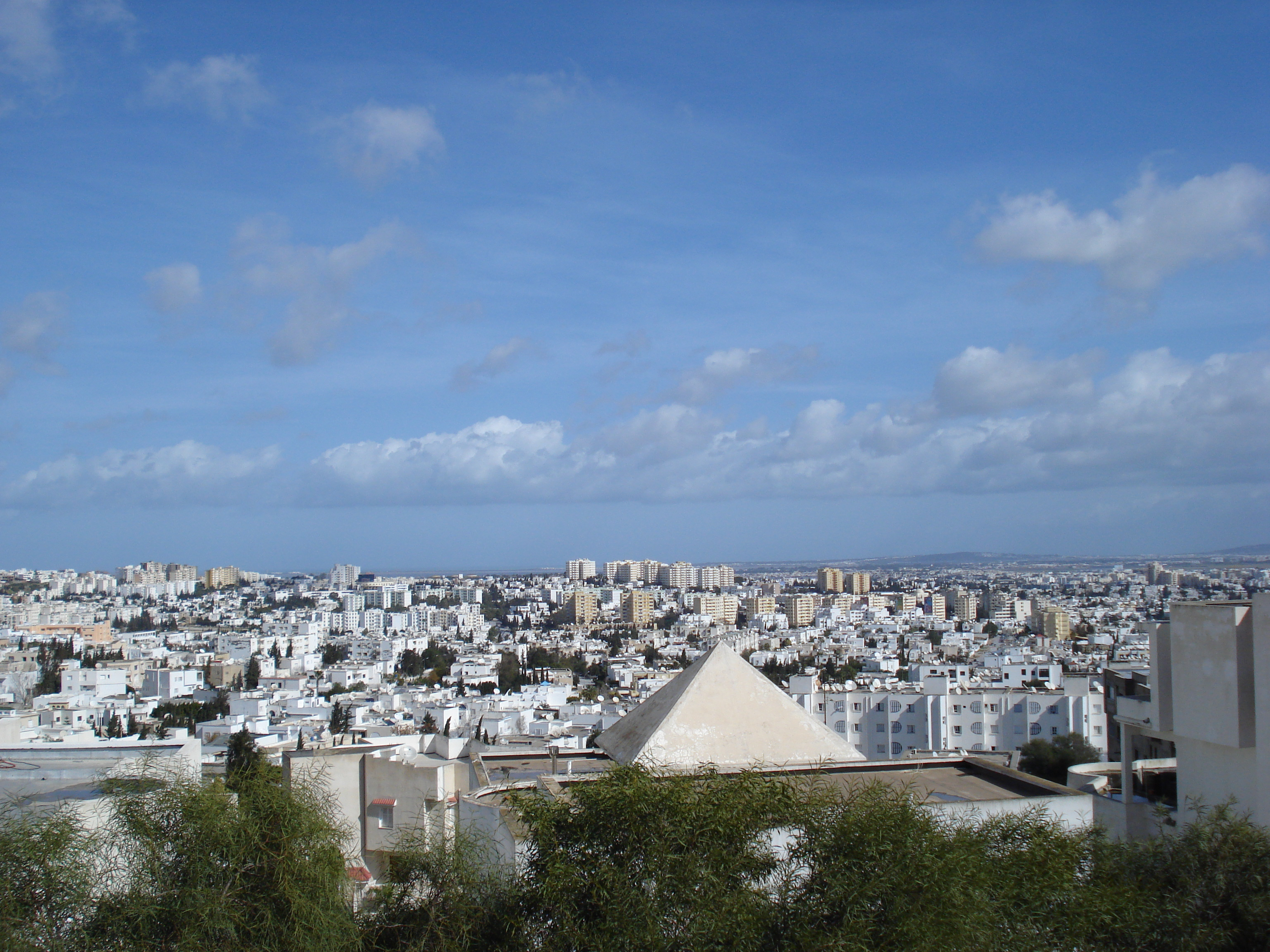 Les El Manar (1-3) et les El Menzah (5-7), Tunis, Tunisia